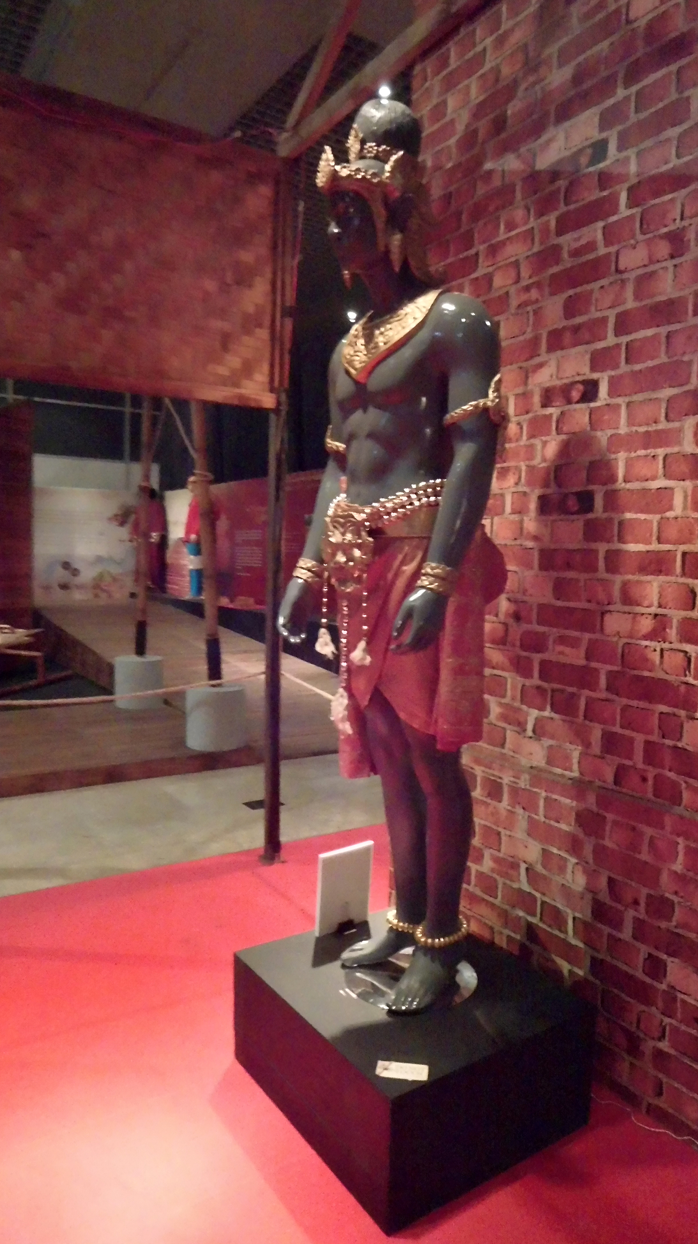 The depiction of Dapunta Hyang Sri Jayanasa, the first king of Srivijaya. It demonstrate the fashion of royalty in 7th century Sumatra, displayed in "Kedatuan Sriwijaya" exhibition in November 2017. National Museum of Indonesia, Jakarta, Indonesia.